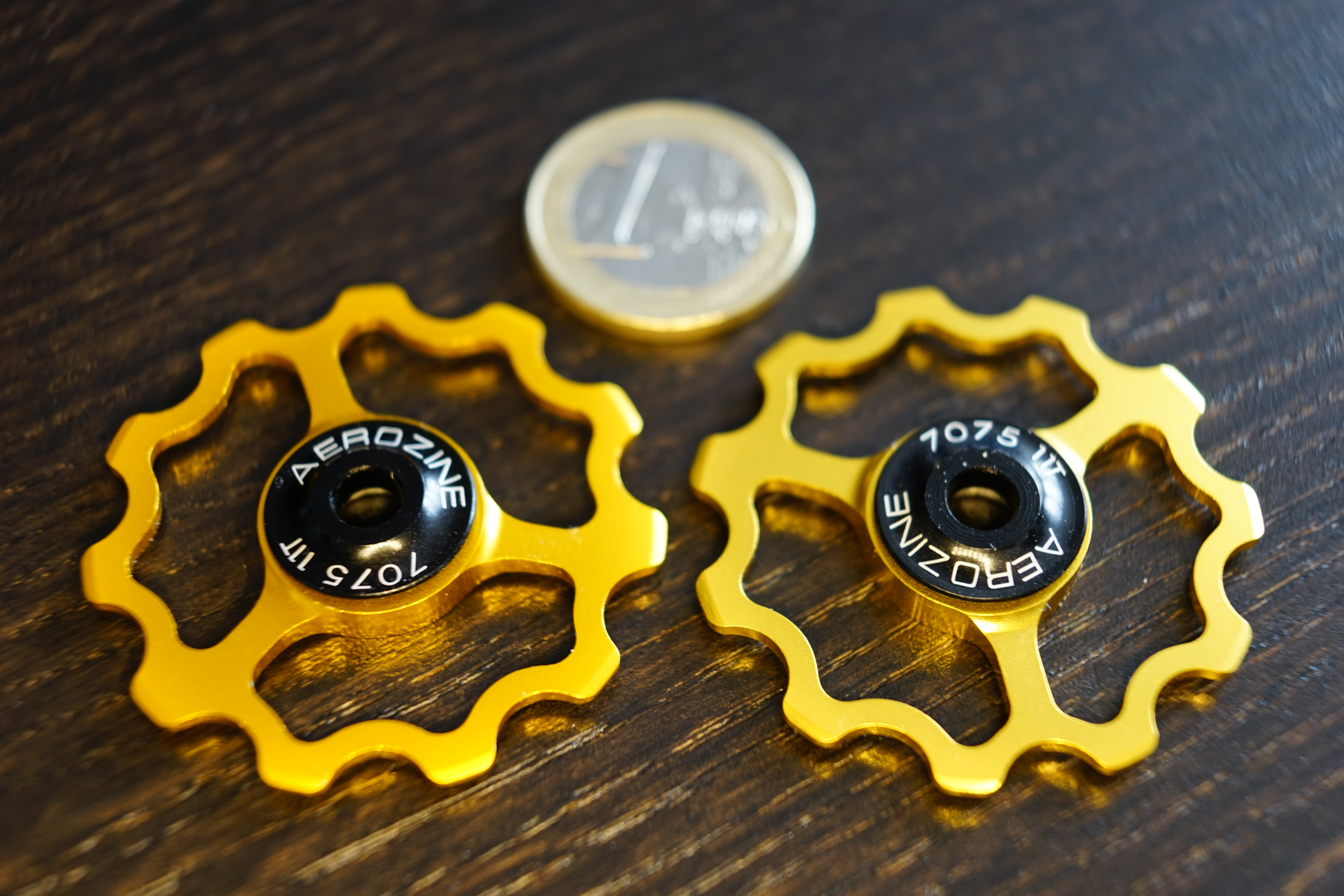 Pulley wheels for a bicycle rear derailleur, Aerozine PL1.0, 7075 aluminium alloy with steel bearings, 11.6 g per pair